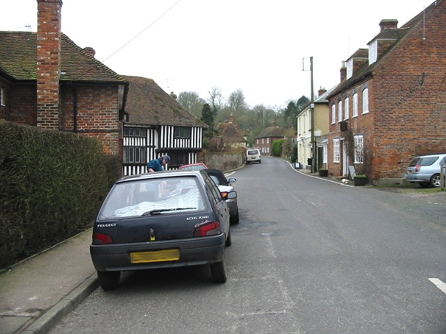 Petham, view along The Street